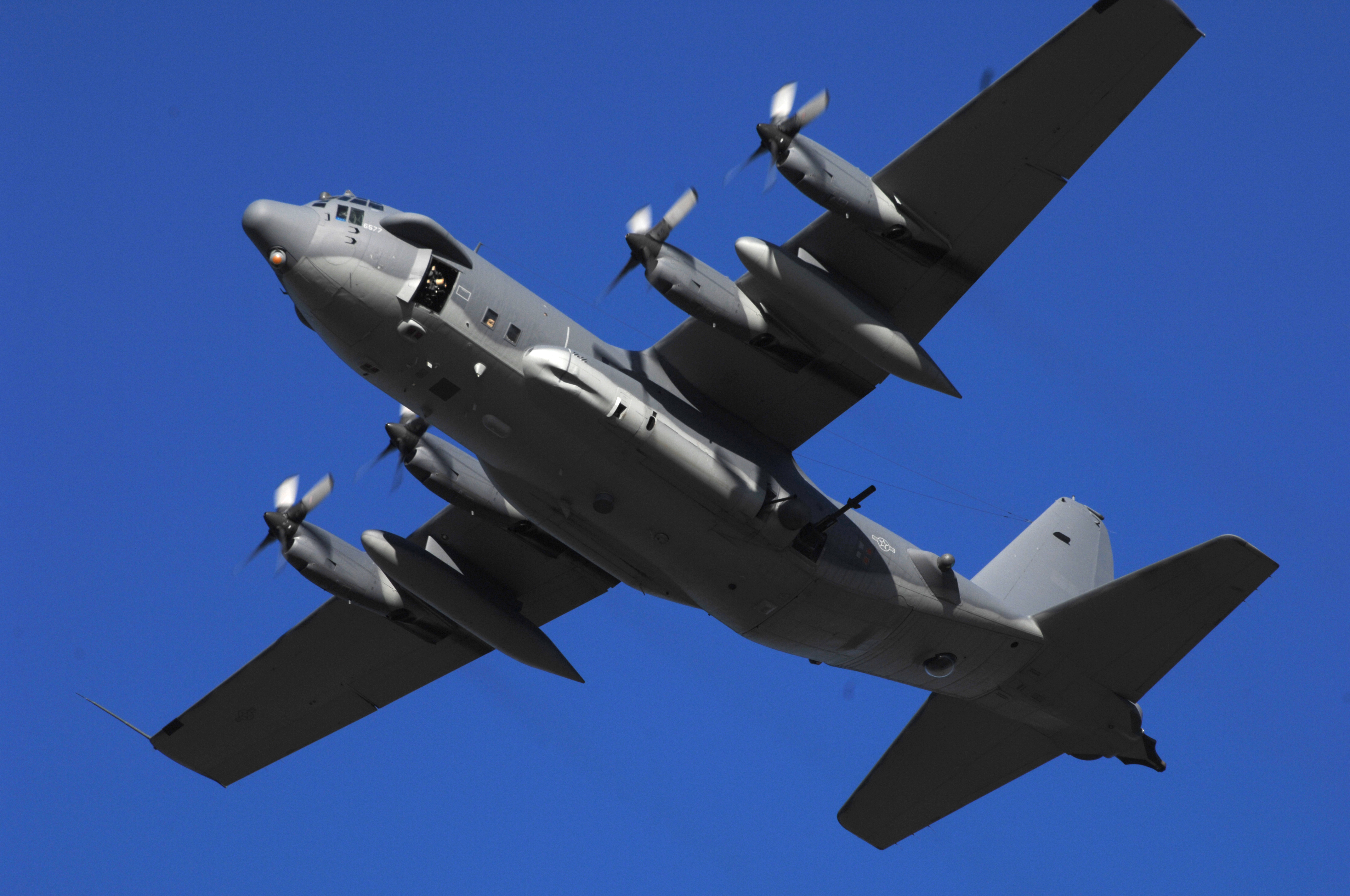 An AC-130H gunship flies over Hurlburt Field